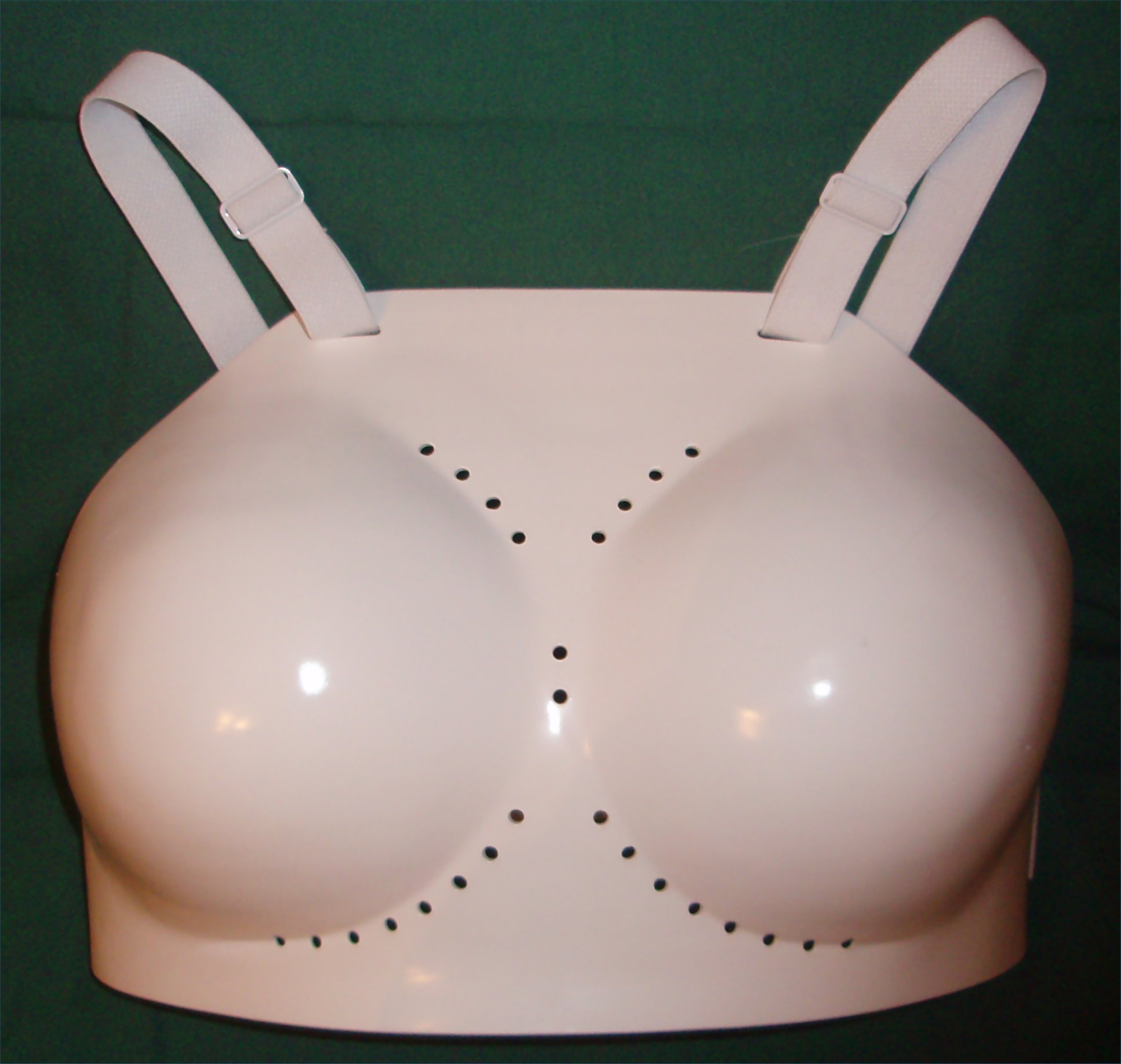 Women's chest protector (required for fencing)